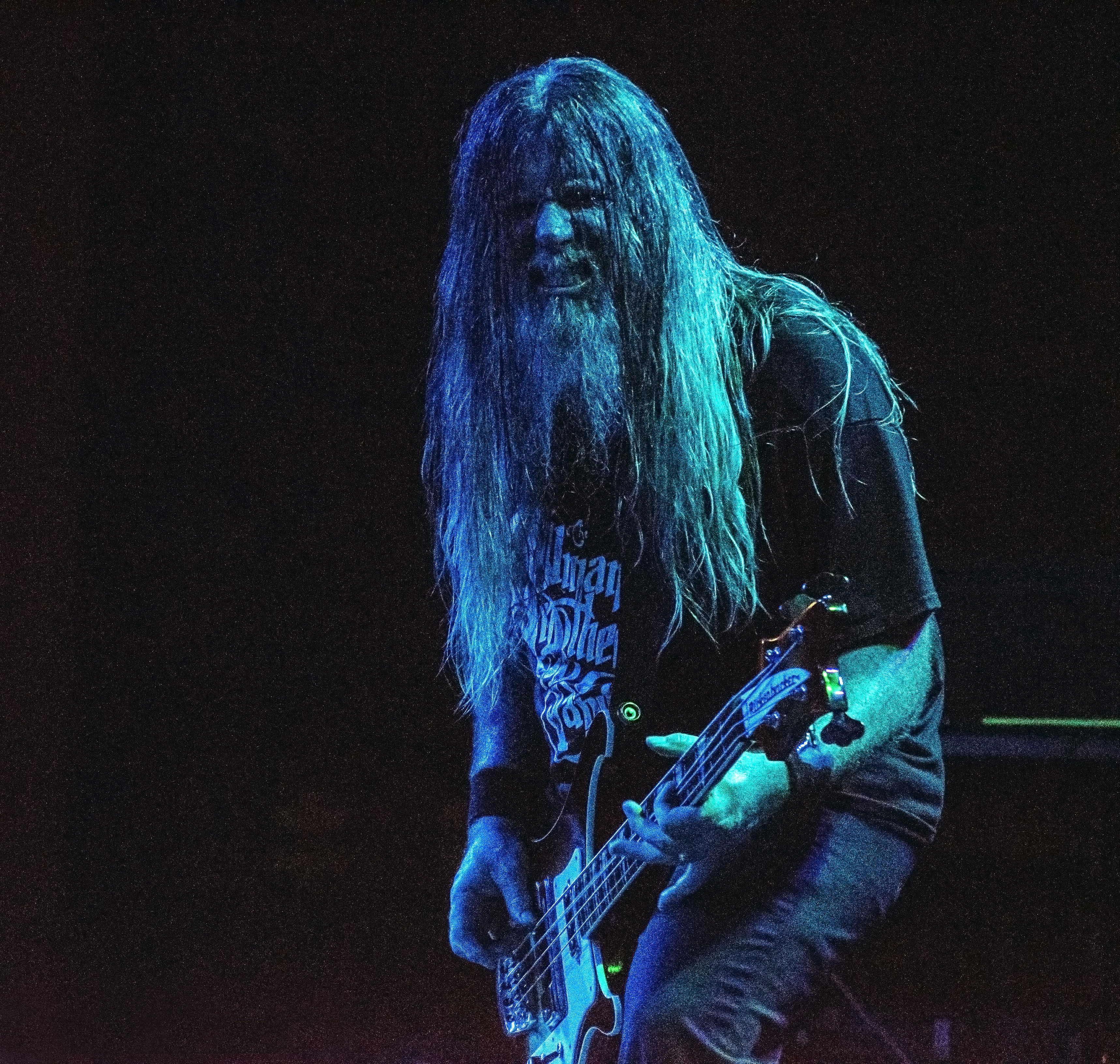 Patrick Bruders playing Bass for Down in 2015